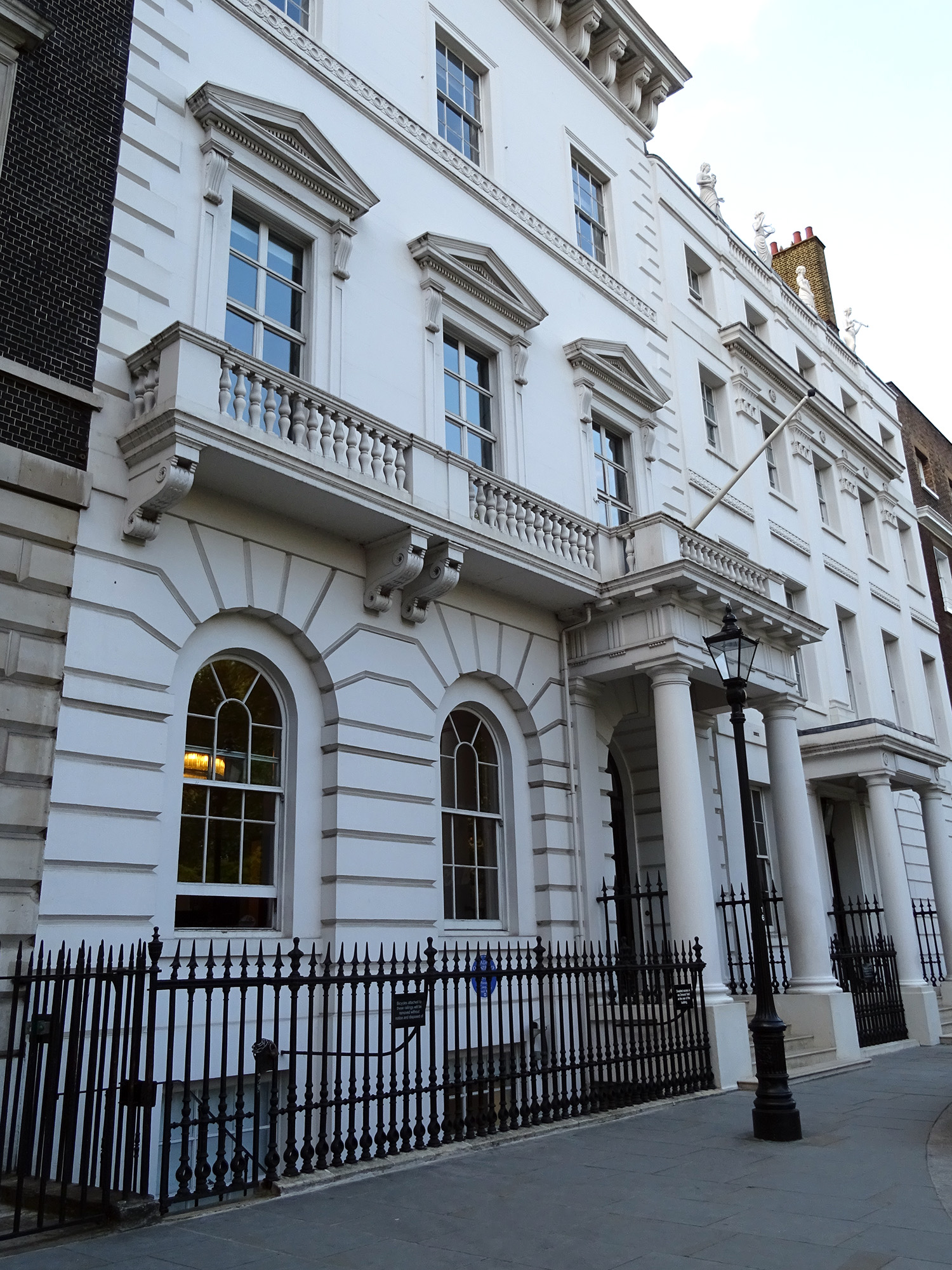 ADA COUNTESS OF LOVELACE 1815-1852 Pioneer of Computing lived here - 12 St James's Square St James's London SW1Y 4RB